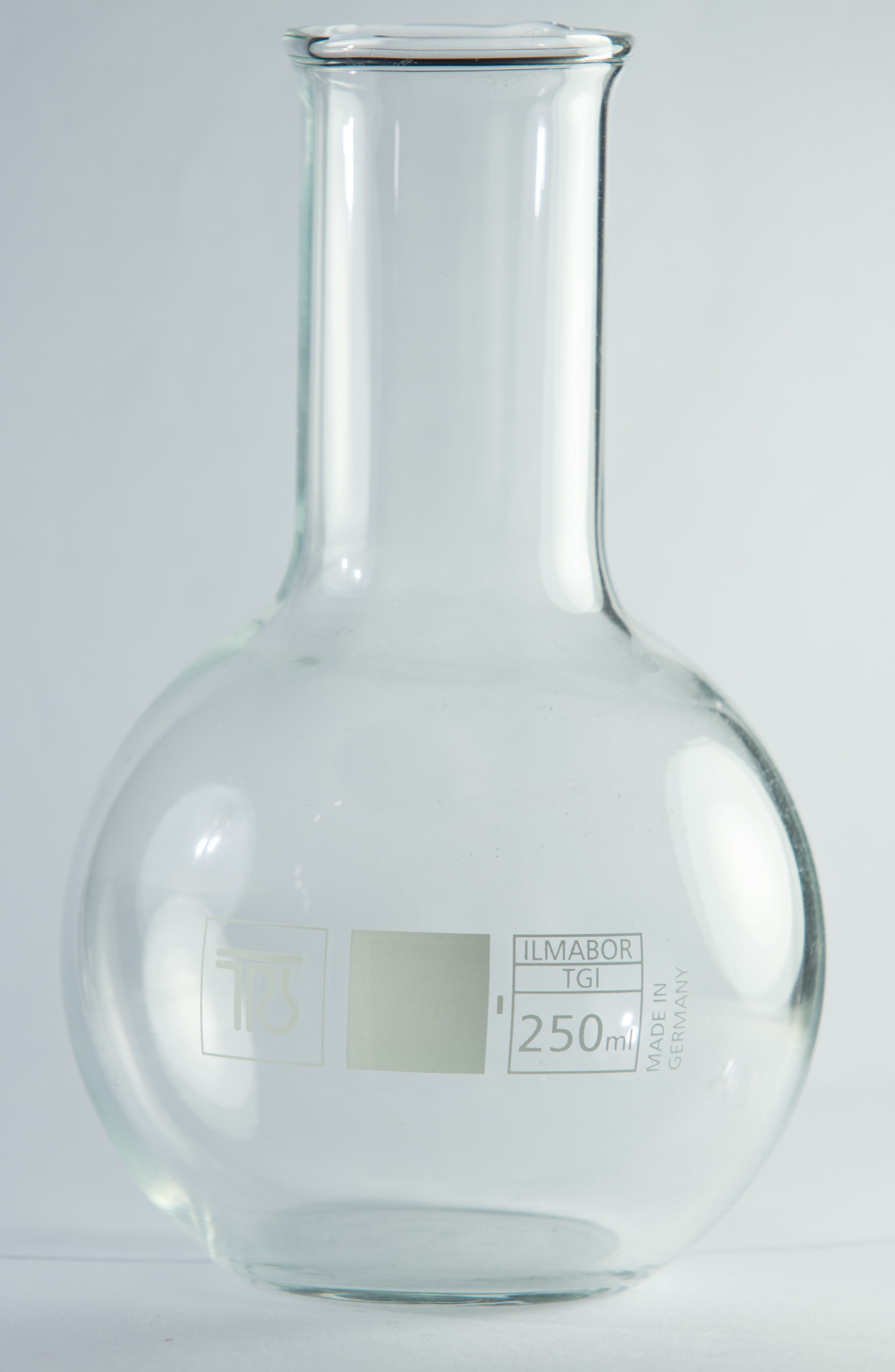 250 ml TGI flat-bottom flask